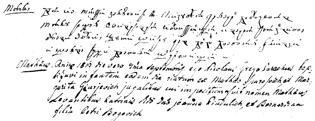 A screenshot of a scan of the baptismal register of the parish of Omiš on the island of Krk in Croatia for the year 1817. In this year, under the parish priest Nicholas, the records switch from Glagolitic to Latin script. The manuscript was scanned by the Croatian National Archive in Zagreb, and then published first in 1990 and then in 1997, and more recently online at .